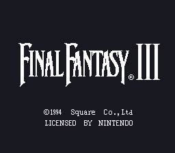 Opening title of Final Fantasy VI (aka Final Fantasy III in North America) on Super Nintendo Entertainment System